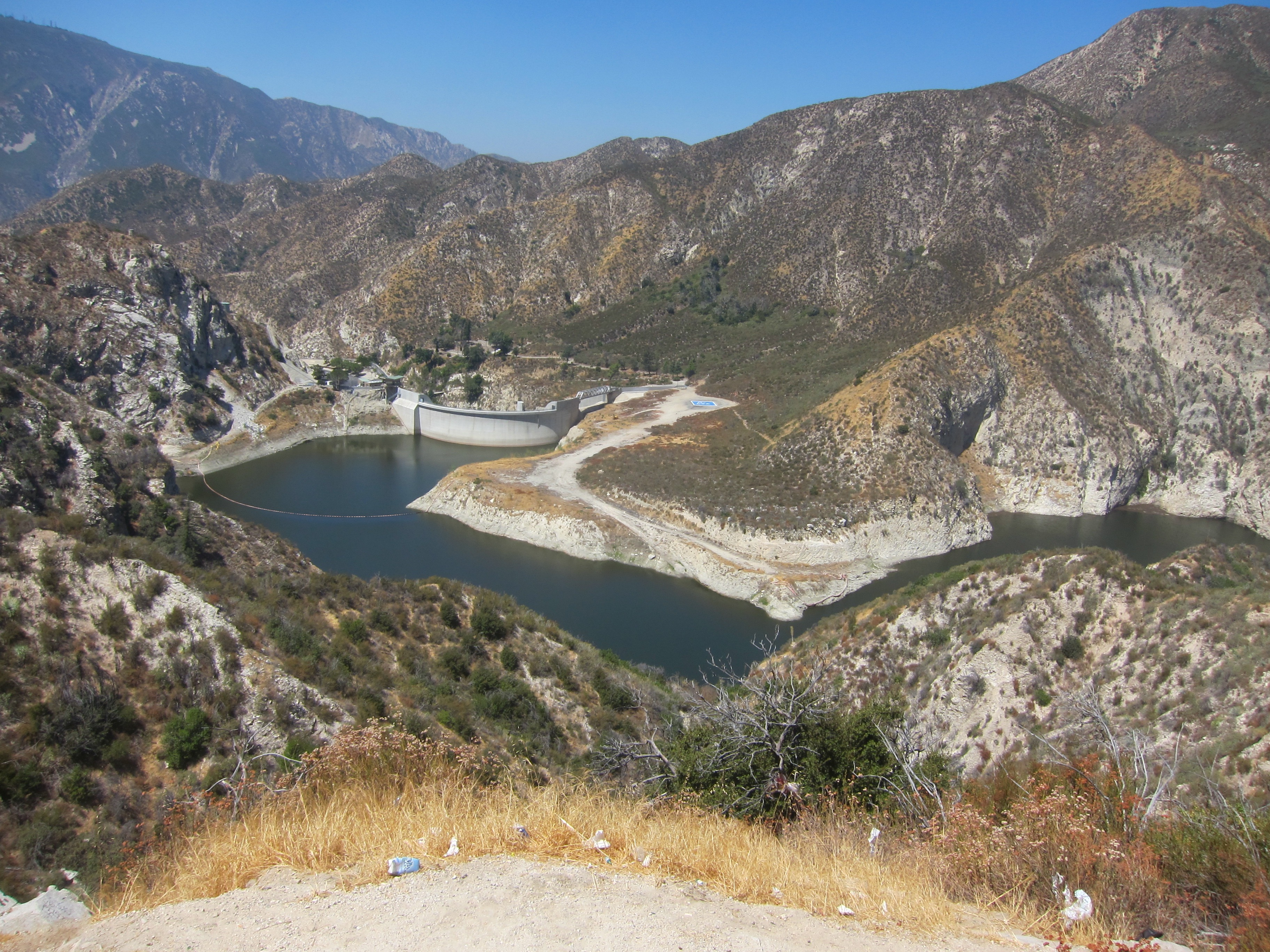 A view of Big Tujunga Dam and Reservoir, Los Angeles County, from the dam overlook along Big Tujunga Canyon Road